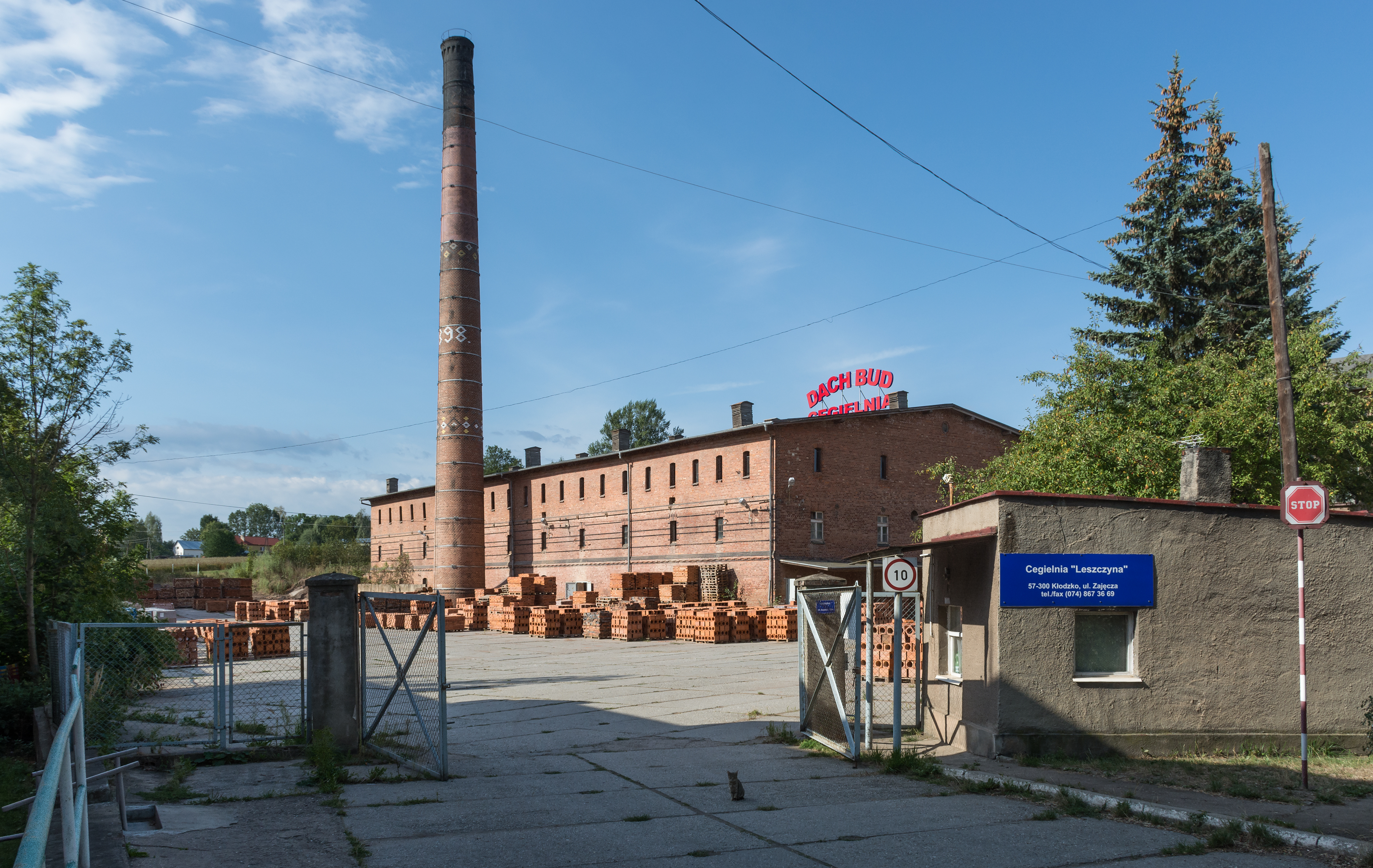 Brickyard at the Zajęcza Street in Kłodzko